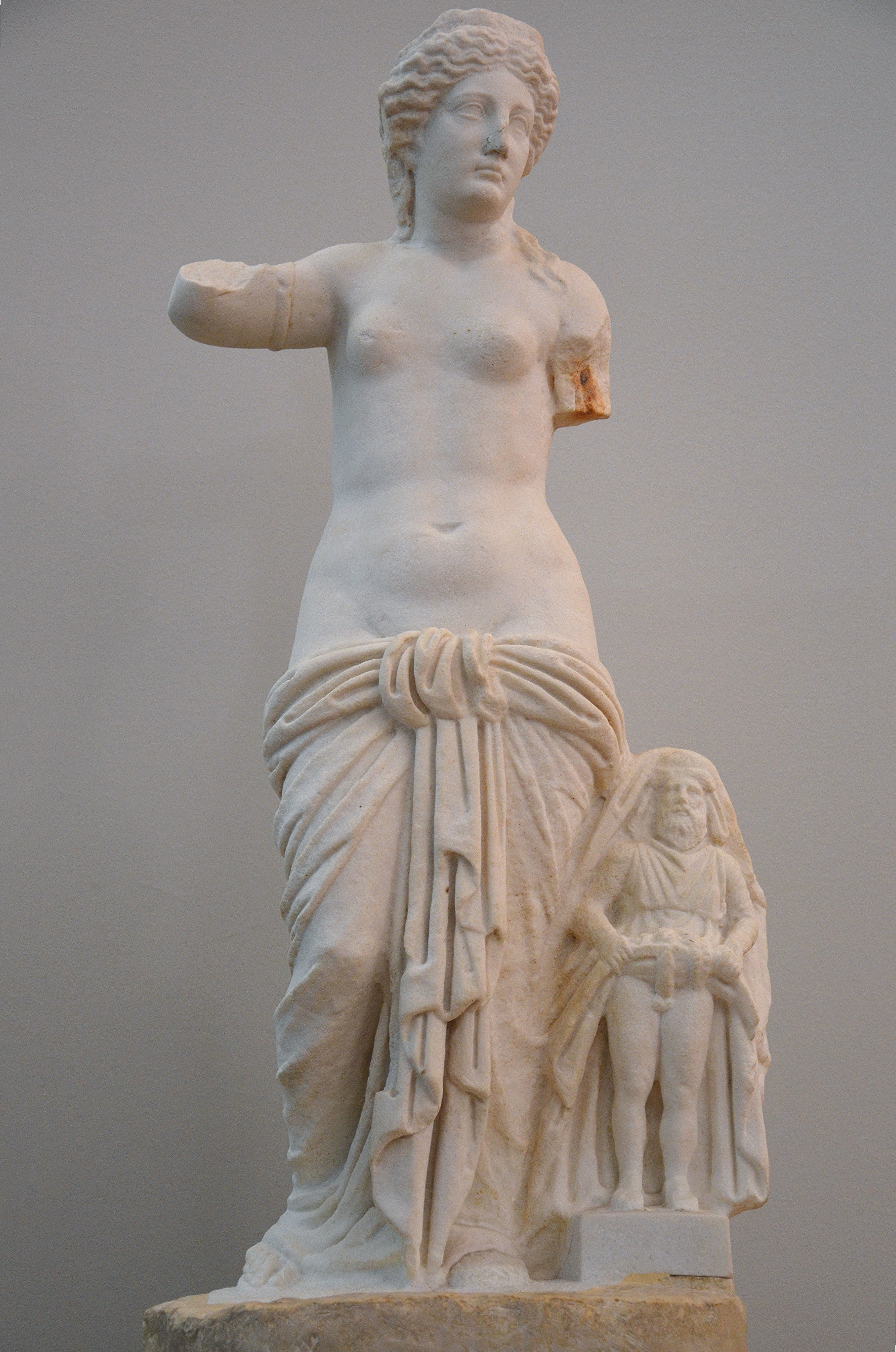 Statue of Venus Ansotica with Priapus, beginning 2nd half of 1st century AD, Split Archaeological Museum